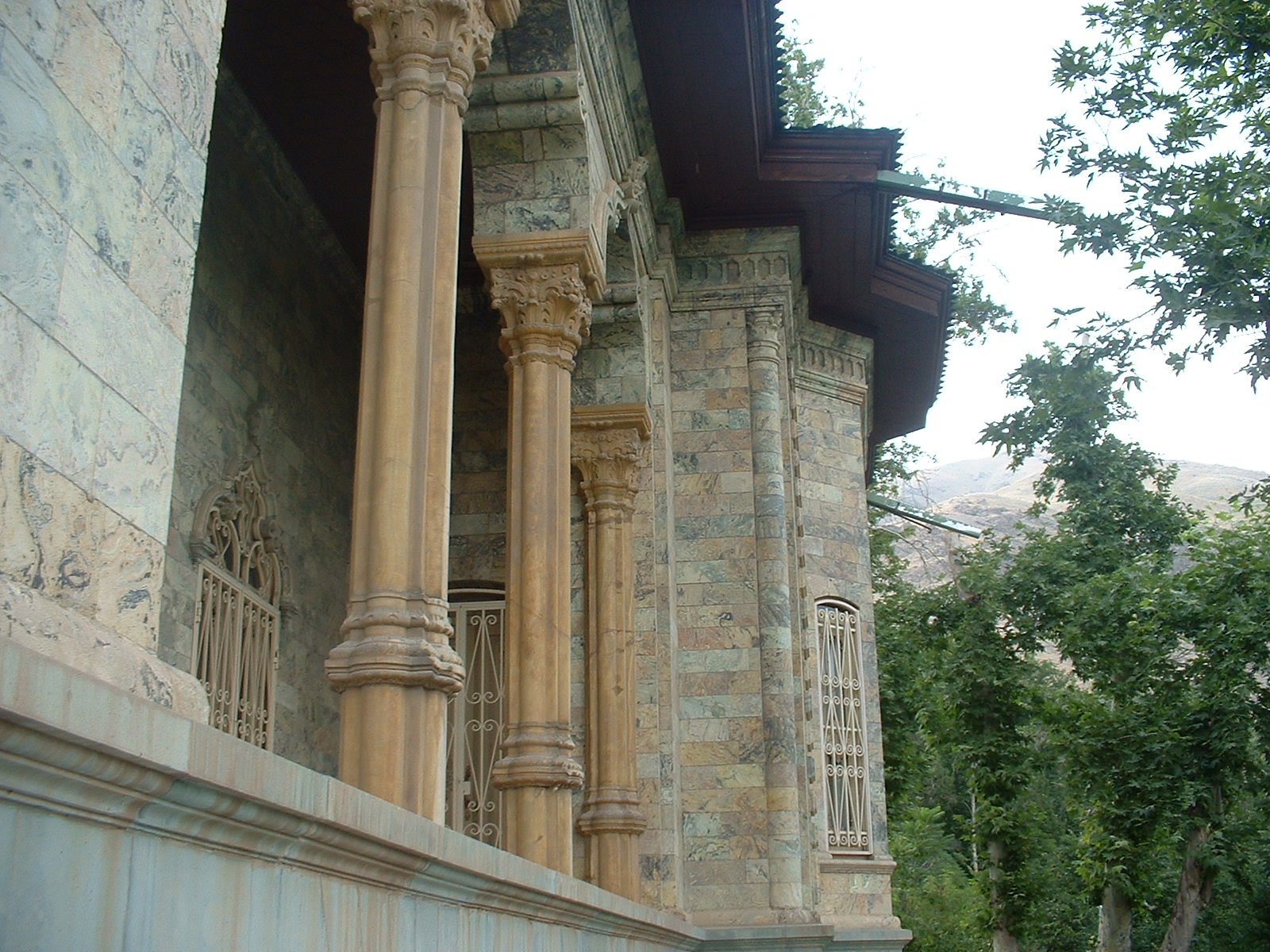 Side view of the Green Palace — in the Sad'abad Palaces compound, Tehran. Example of Qajar dynasty architecture.